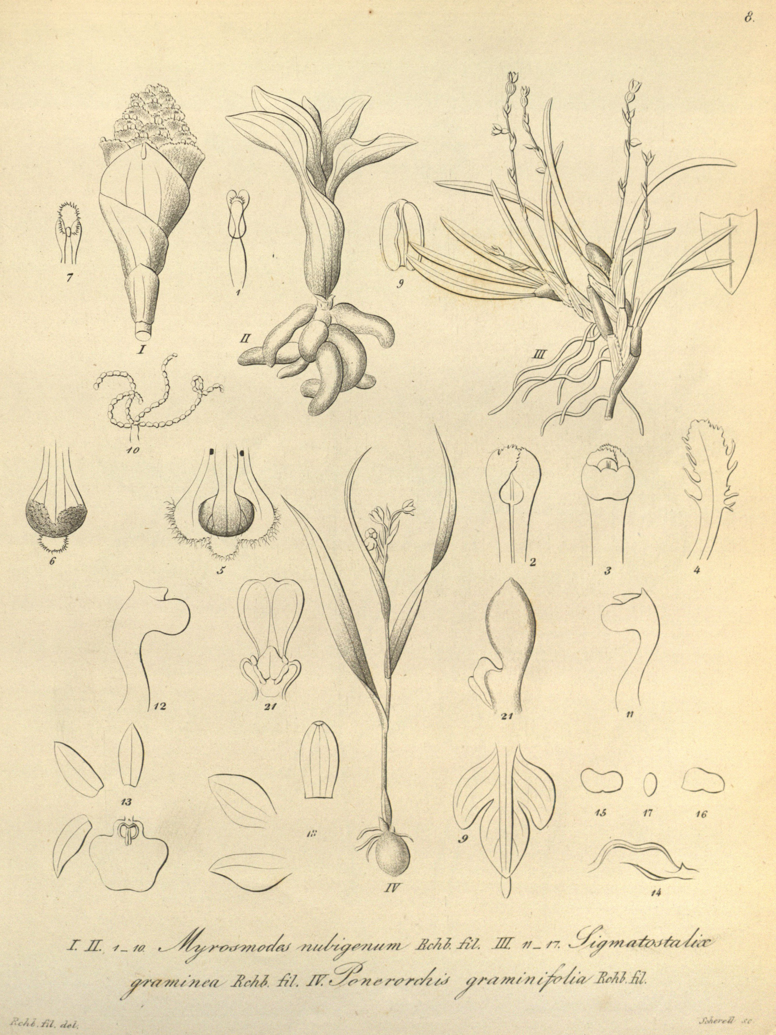 Illustration of Myrosmodes nubigenum (I, II, top left) , Sigmatostalix graminea (III, top right) Ponerorchis graminifolia (IV, bottom center)